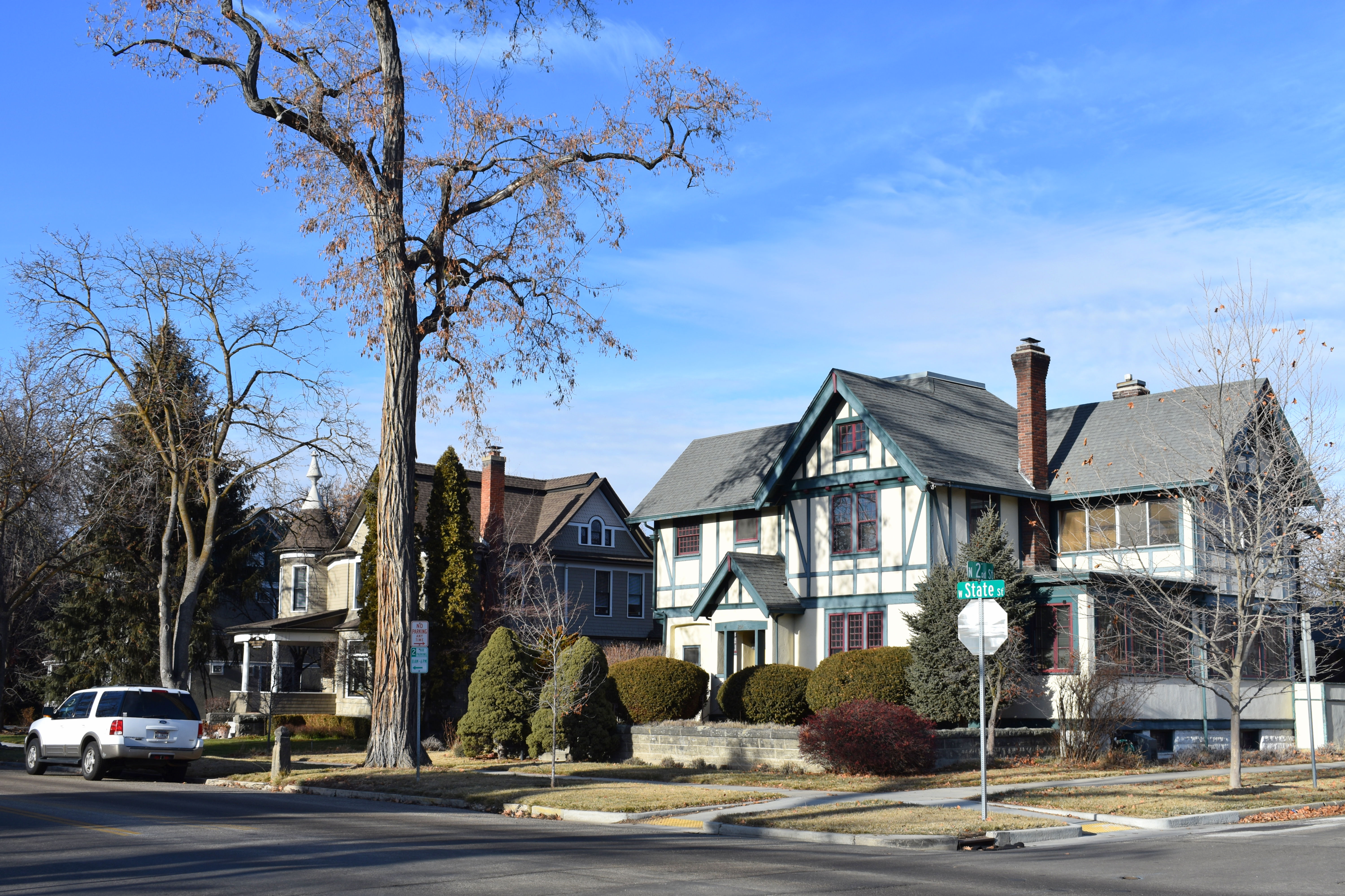 The State Street Historic District in Boise, Idaho, is listed on the National Register of Historic Places.